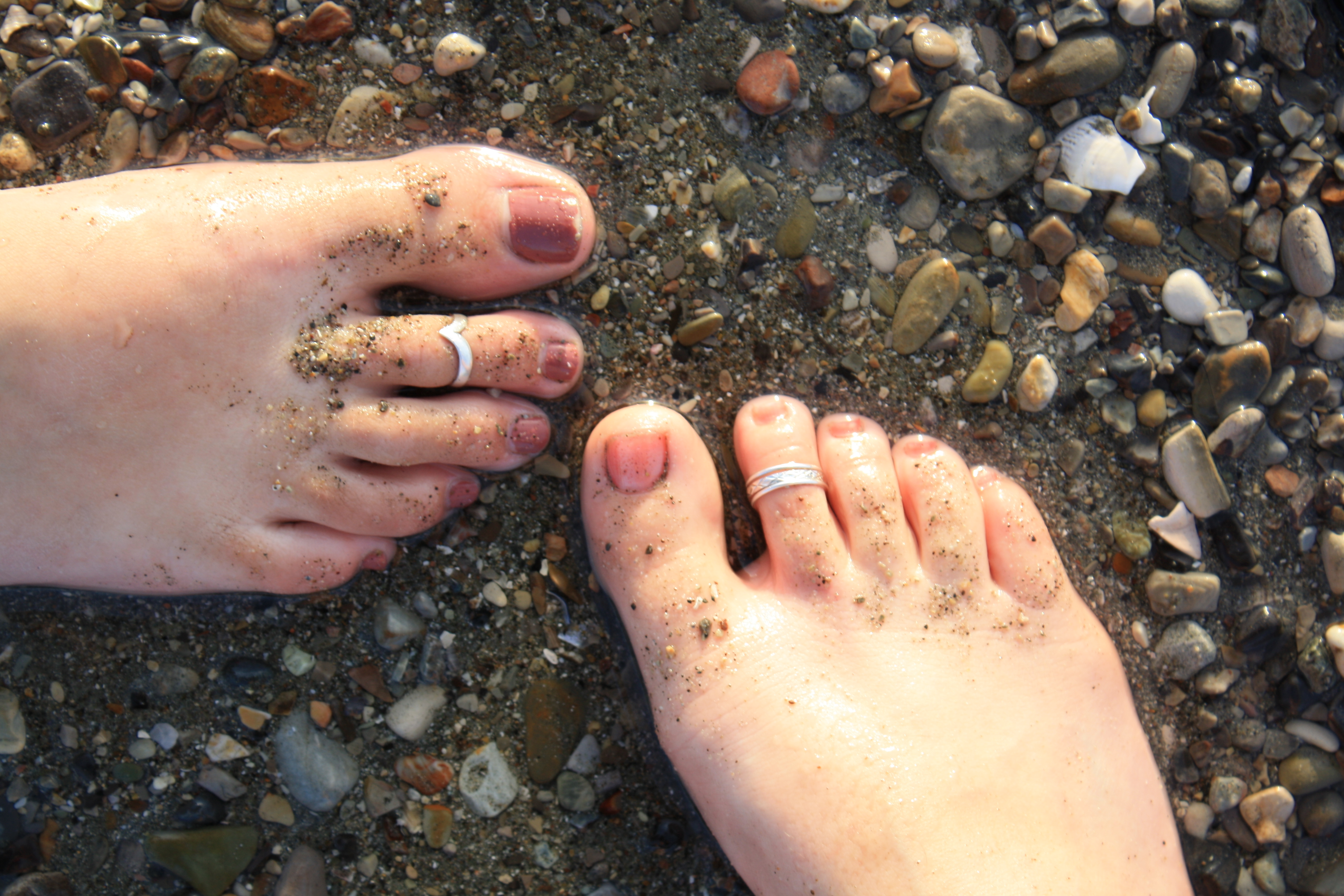 Toe rings on females' middle toes